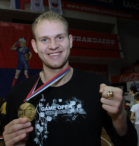 Russian bball player